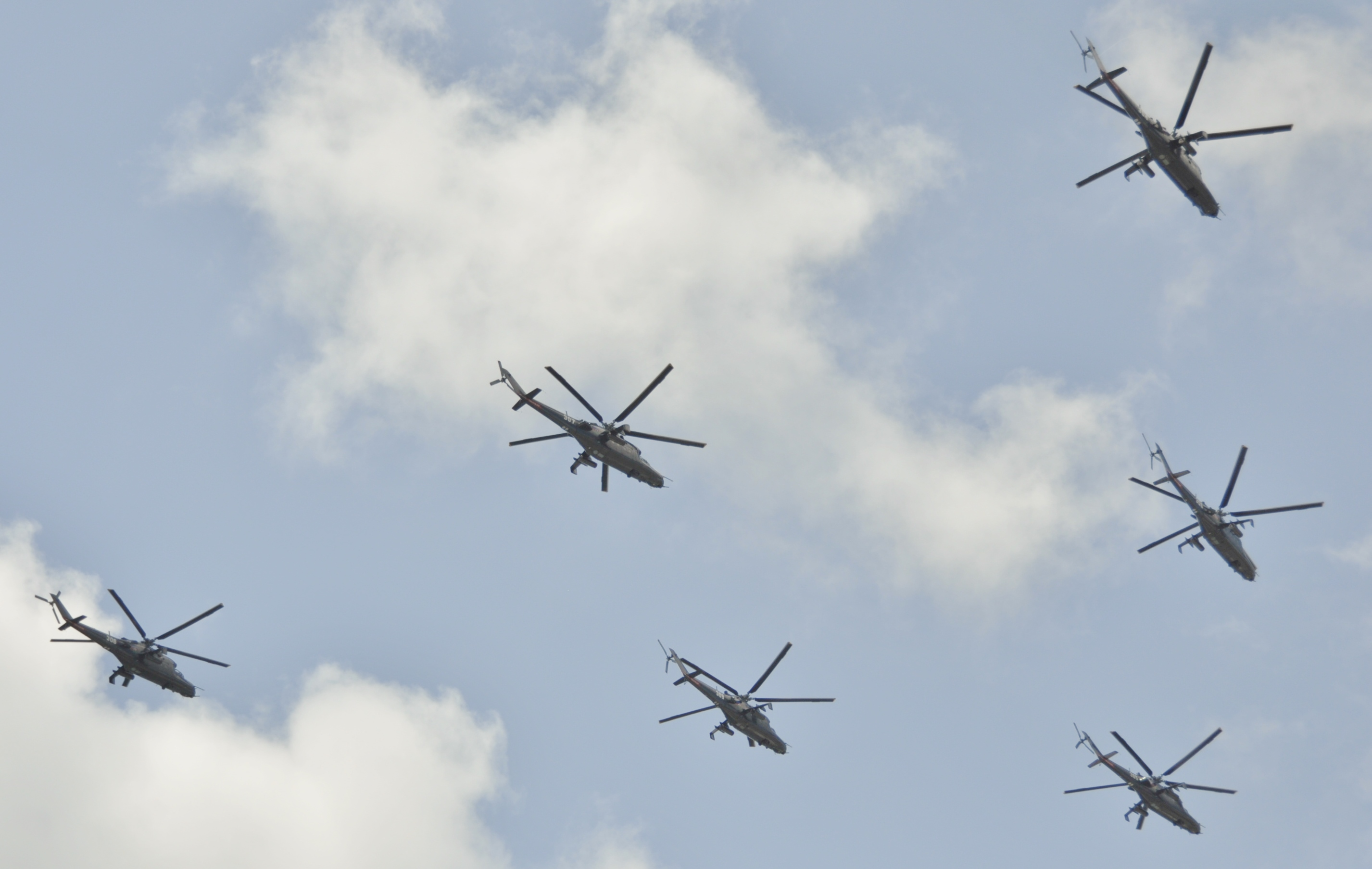 Azerbaijan Air Force Mil Mi-24's fly over the military parade in Baku on an Army Day 2011